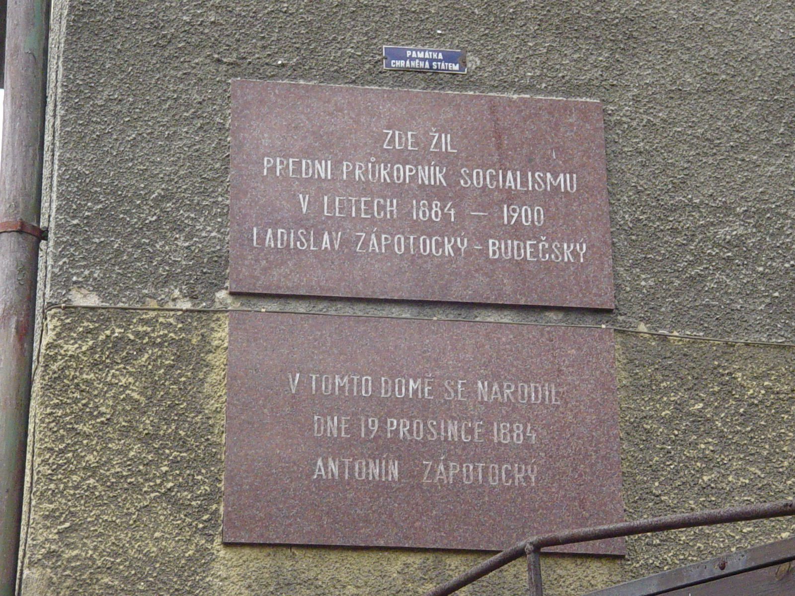 Memorial plaque on birth house of Antonín Zápotocký, president of Czechoslovakia 1953-57, in Zákolany, Kladno District, Czech Republic.)